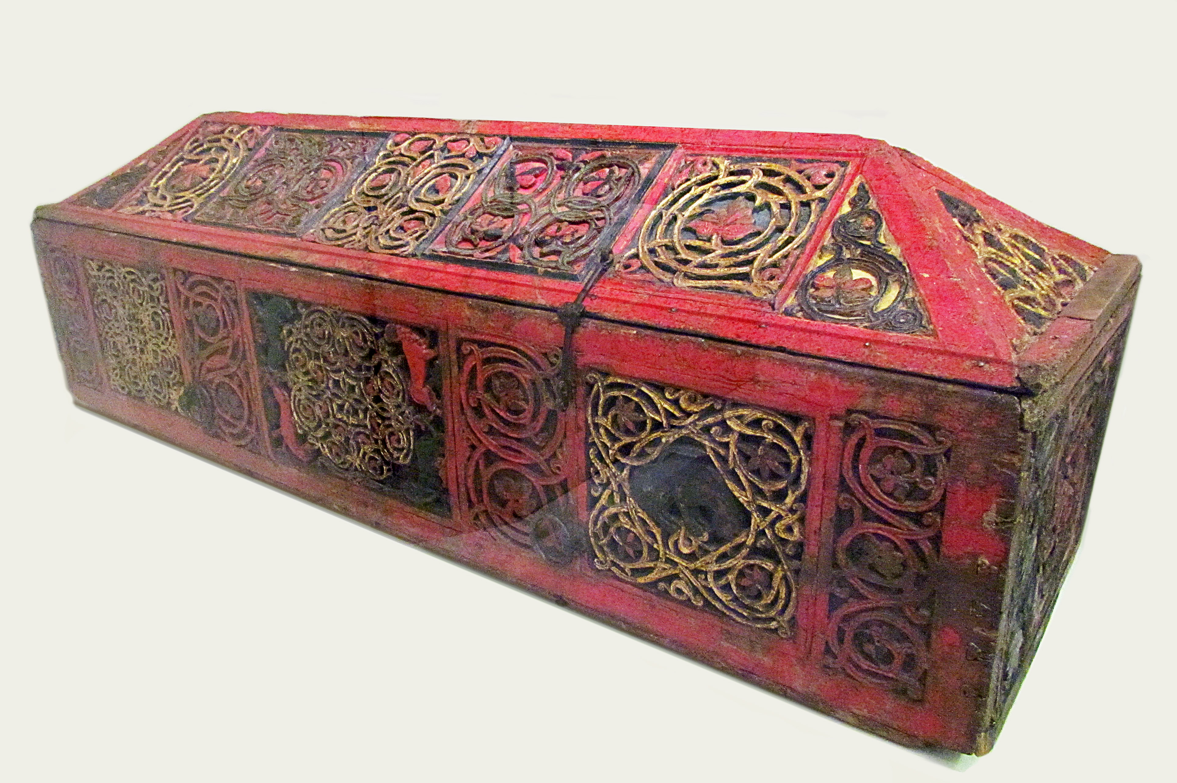 Coffin-reliquary with remains of St. King Stefan Decanski